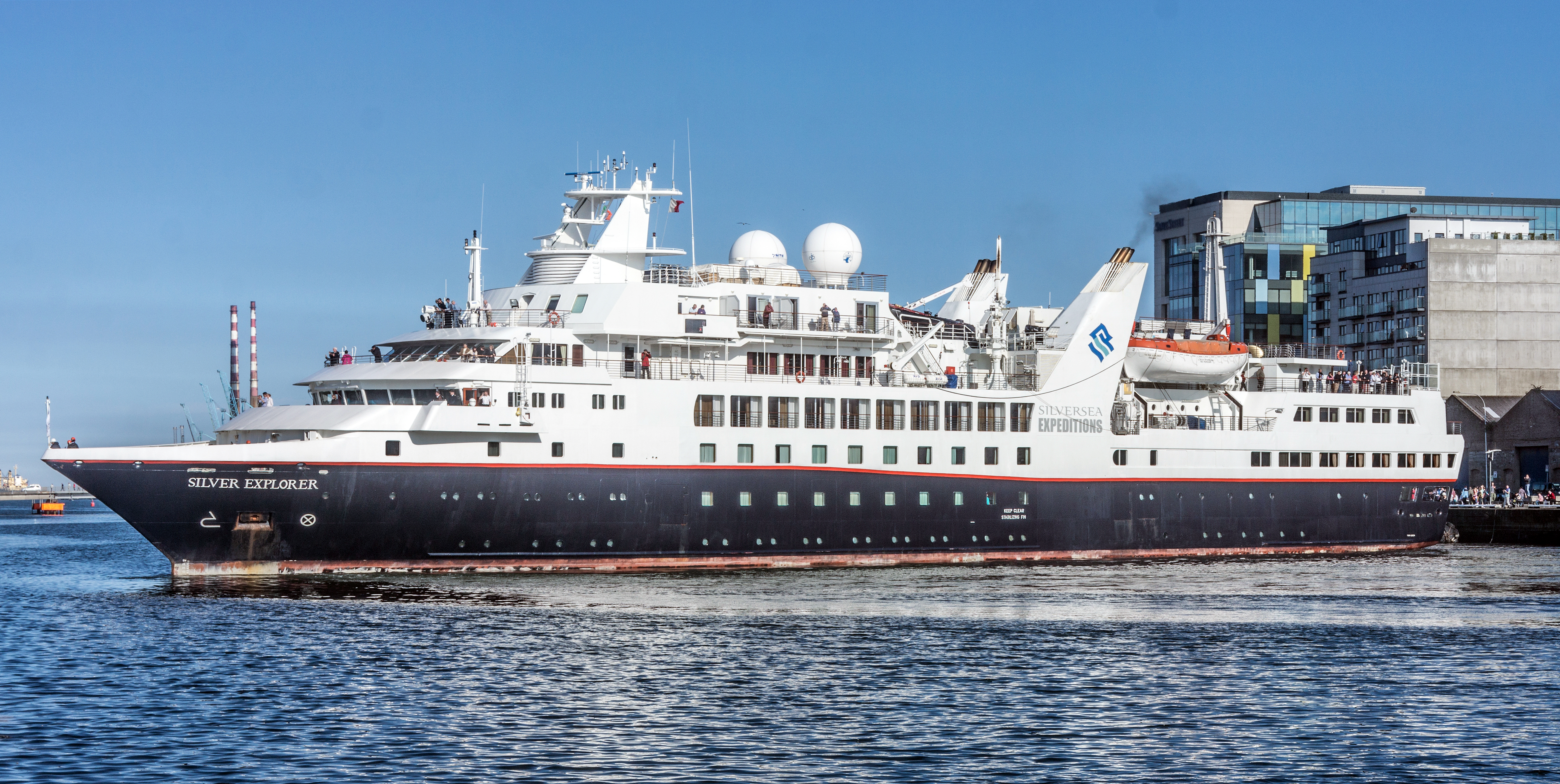 Cruise ship Silver Explorer in Dublin